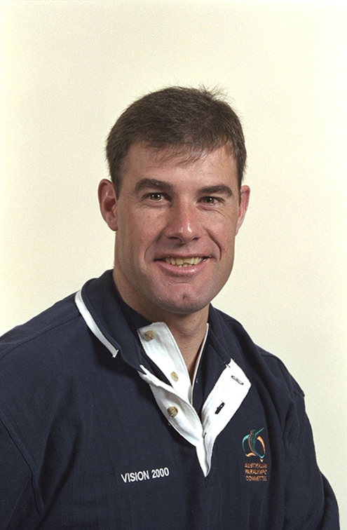 Portrait of Australian athletics competitor Anton Flavel, 2000 Australian Paralympic Team athlete